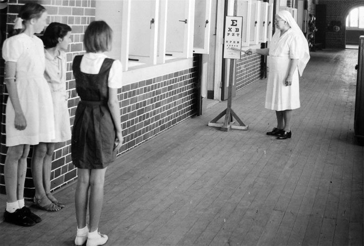 Eye testing with the School Health Services. (The original photograph caption refers to School Health Services for Dr Welch.)